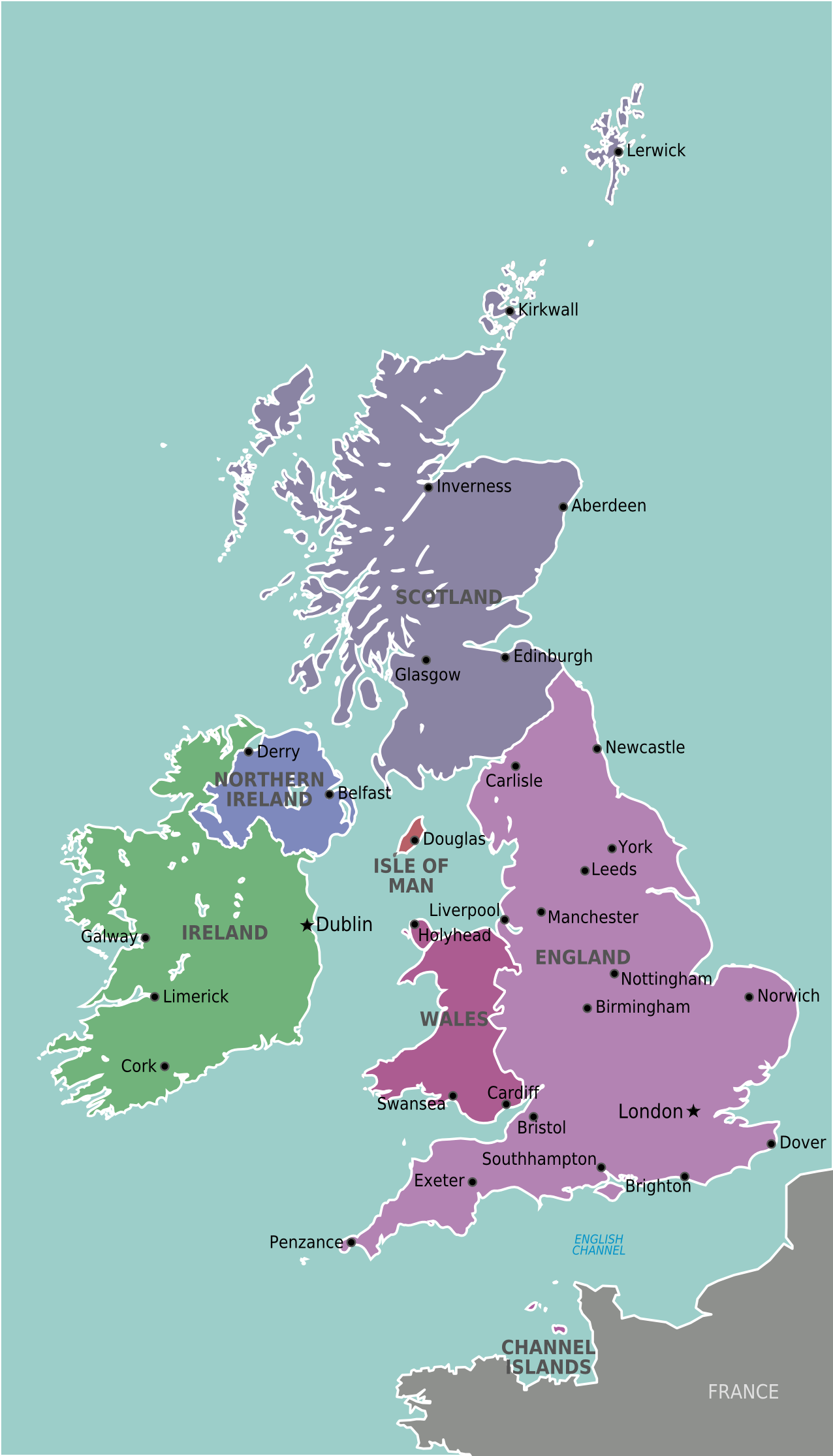 Map of The British & Irish Isles for use on Wikivoyage, English version